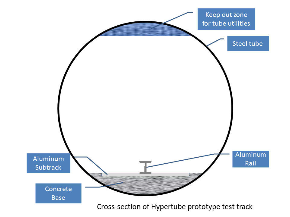 Cross-section of the Hypertube test track being built in 2016 for the Hyperloop pod competitions. Track is a prototype track of the various designs for the Hyperloop more generally. Identifiable features include the steel tube, concrete base, aluminum subtrack and aluminum rail, as well as an identified keep-out zone for tube utilities. WITH Labels included in the png file: English, US spelling.